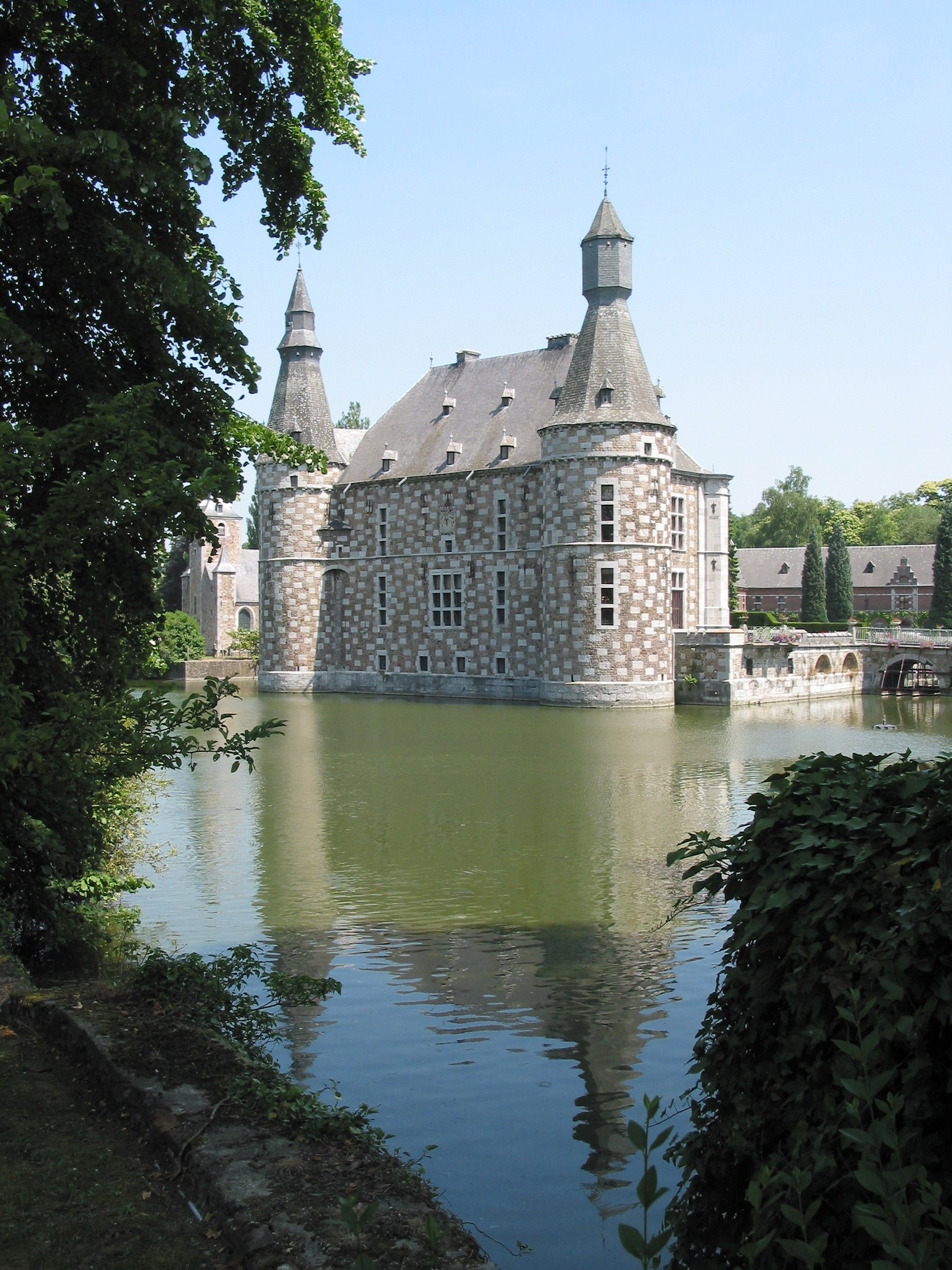 Jehay (Belgium), the castle (XVI-XVIIth centuries).